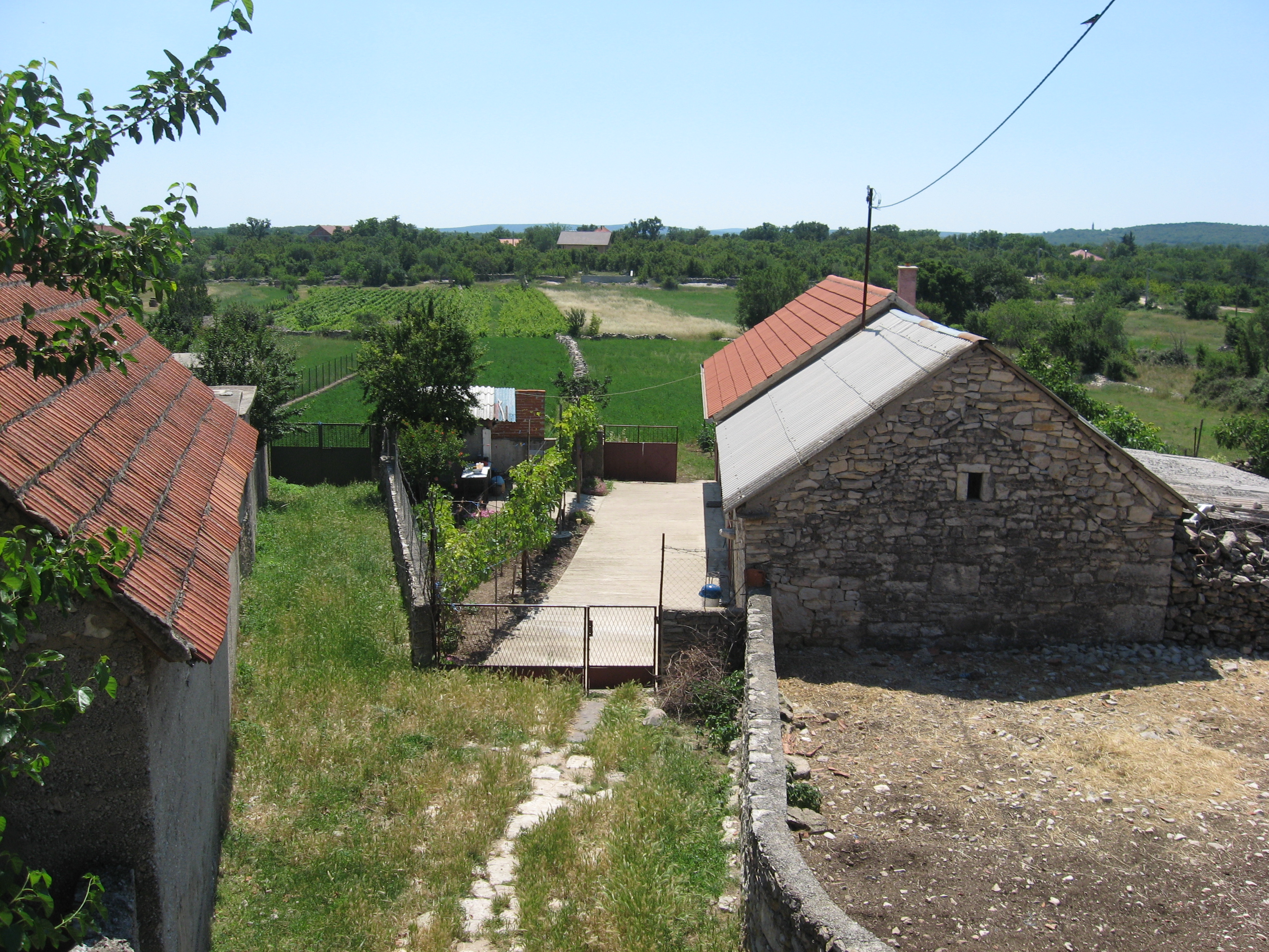 Biovičino selo - Croatia